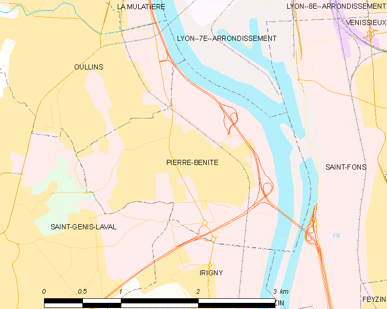 Map of French municipality